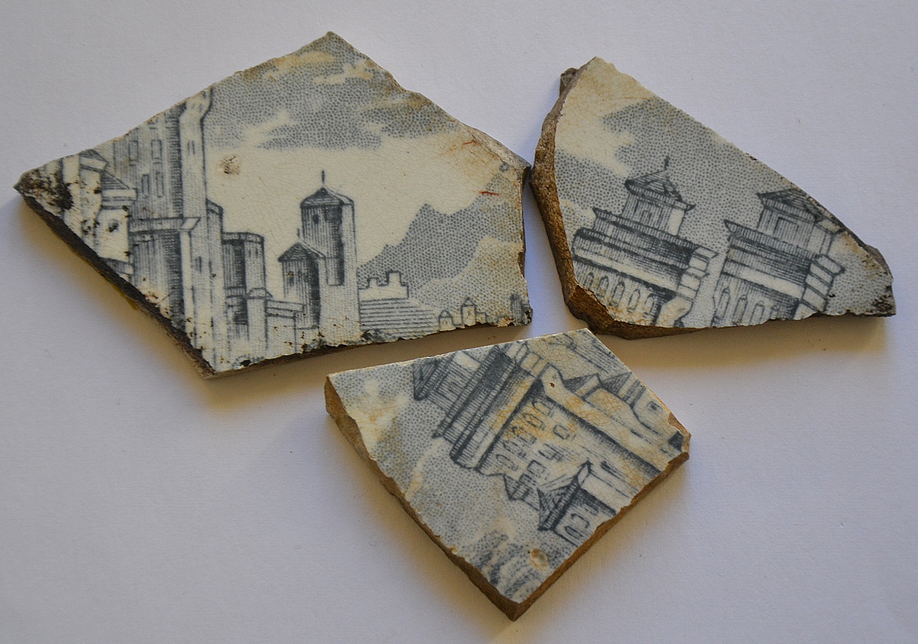 remains from ruins near Thor Head, Asgard Swamp, Blue Mountains, NSW, Australia